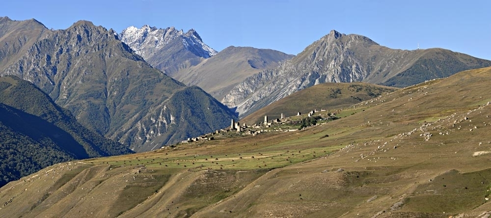 Ossetian village Tsymyti